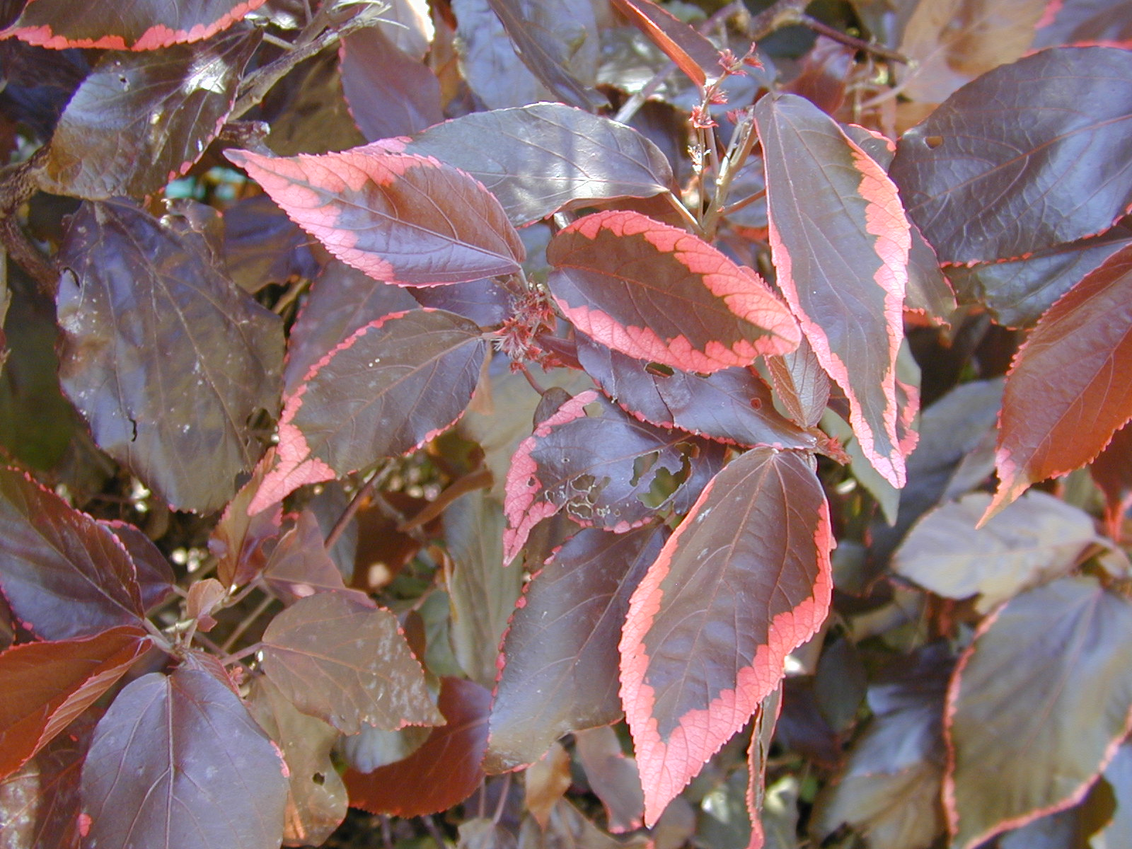 Acalypha godseffiana (leaves). Location: Maui, Makawao